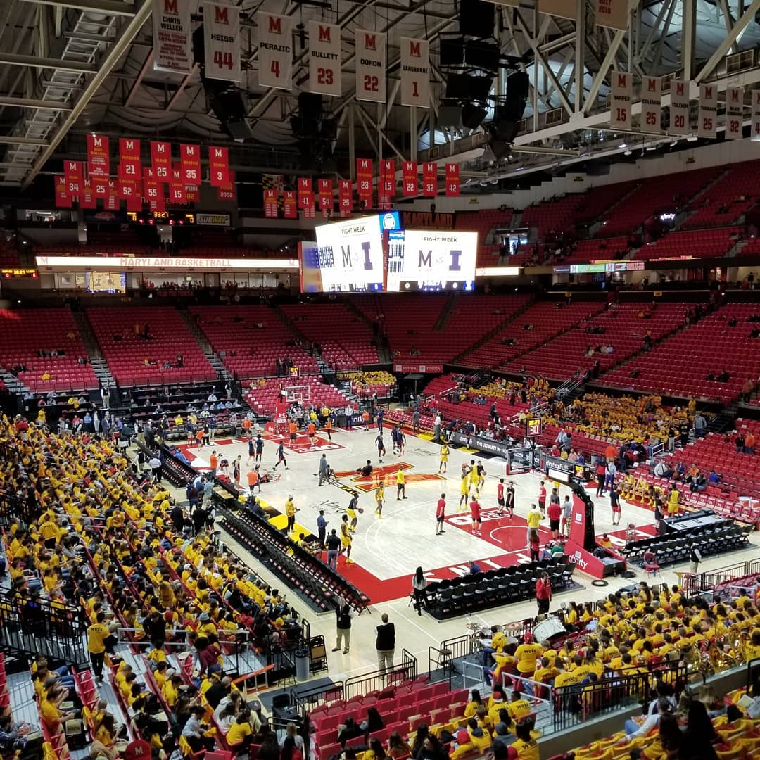 A shot of the Xfinity Center court in College Park, MD. The University of Maryland men's basketball team is warming up before their game against the University of Illinois. Fans are wearing yellow as part of a "Gold Rush" team event.